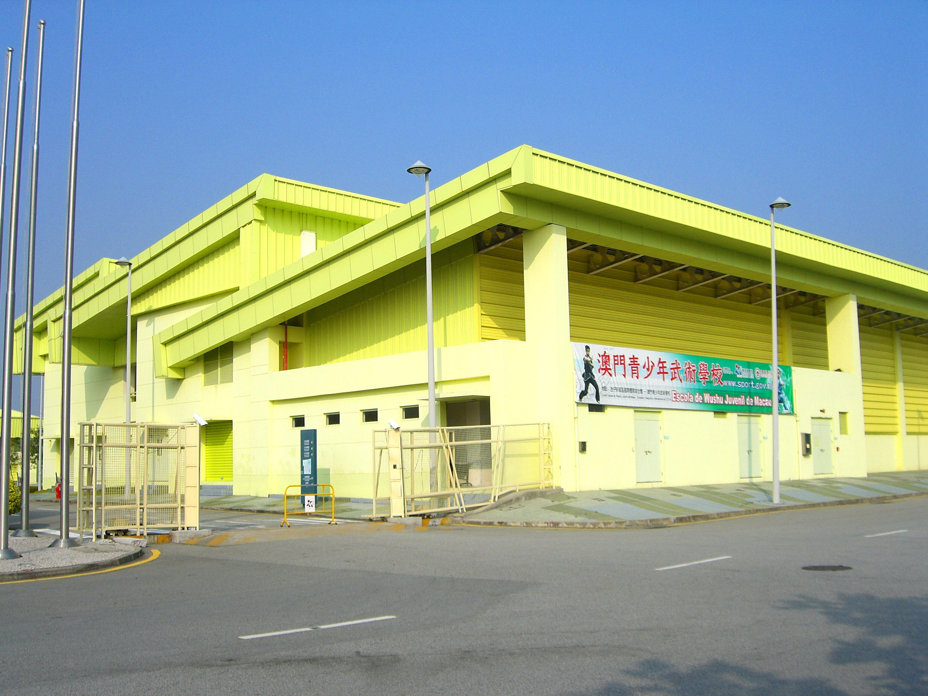 International Shooting Centre of Macau